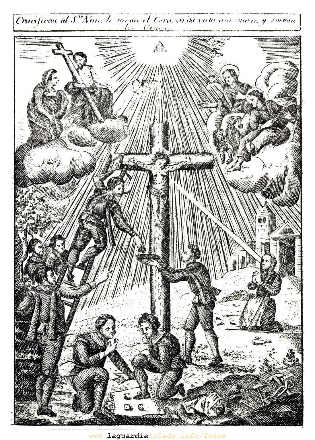 Engraving with the alleged martyrdom of the Holy Child of La Guardia: crucifixion and removal of the heart.